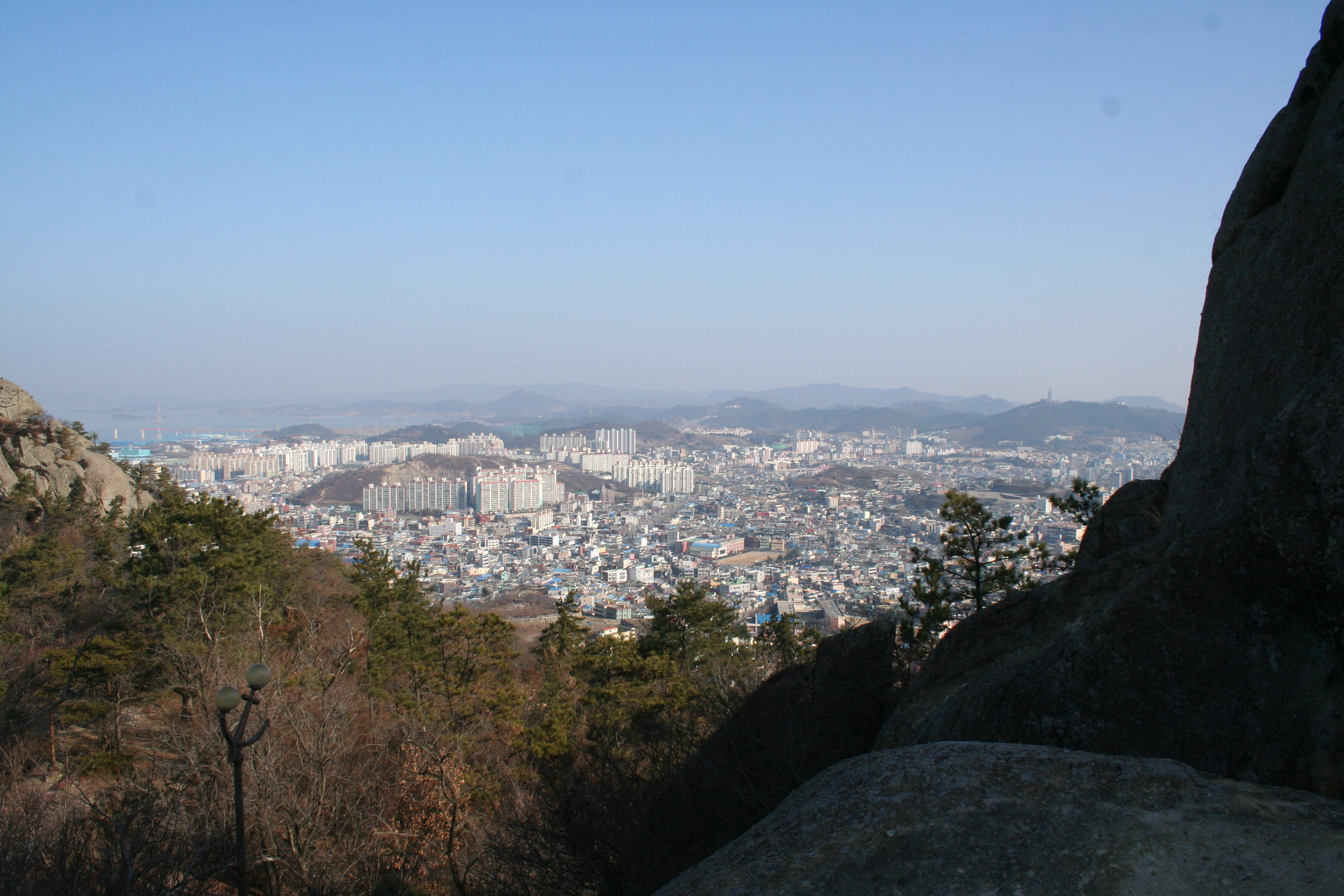 Picture taken by this user and it is released to the public domain